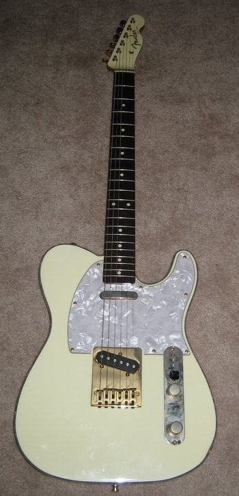 This is a 50th anniversary Fender Japan Telecaster. I took the photo.